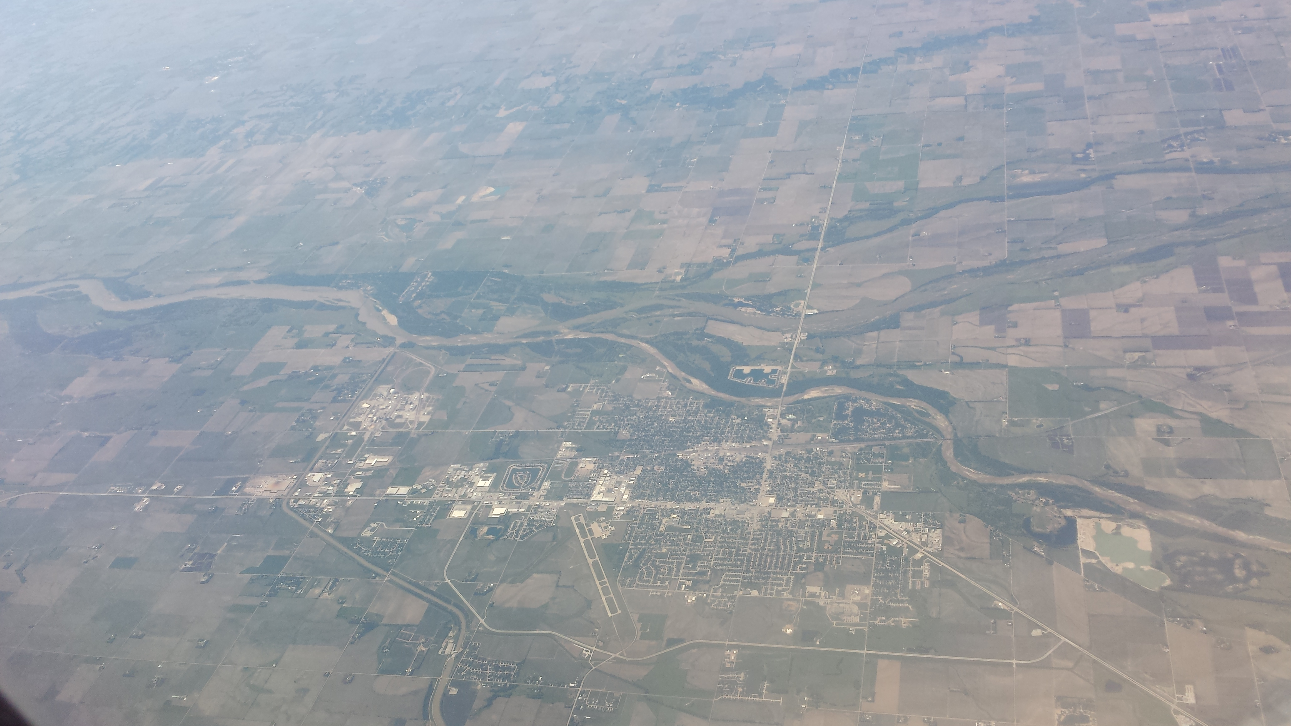 Town identified as Columbus, Nebraska seen from a flight from Los Angeles (LAX) to New York City (JFK)